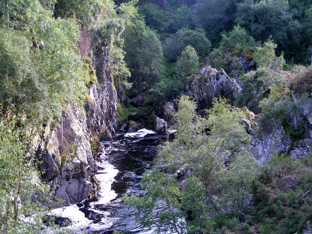 The Gorge at Dulsie Bridge Taken from Dulsie Bridge,over the river Findhorn